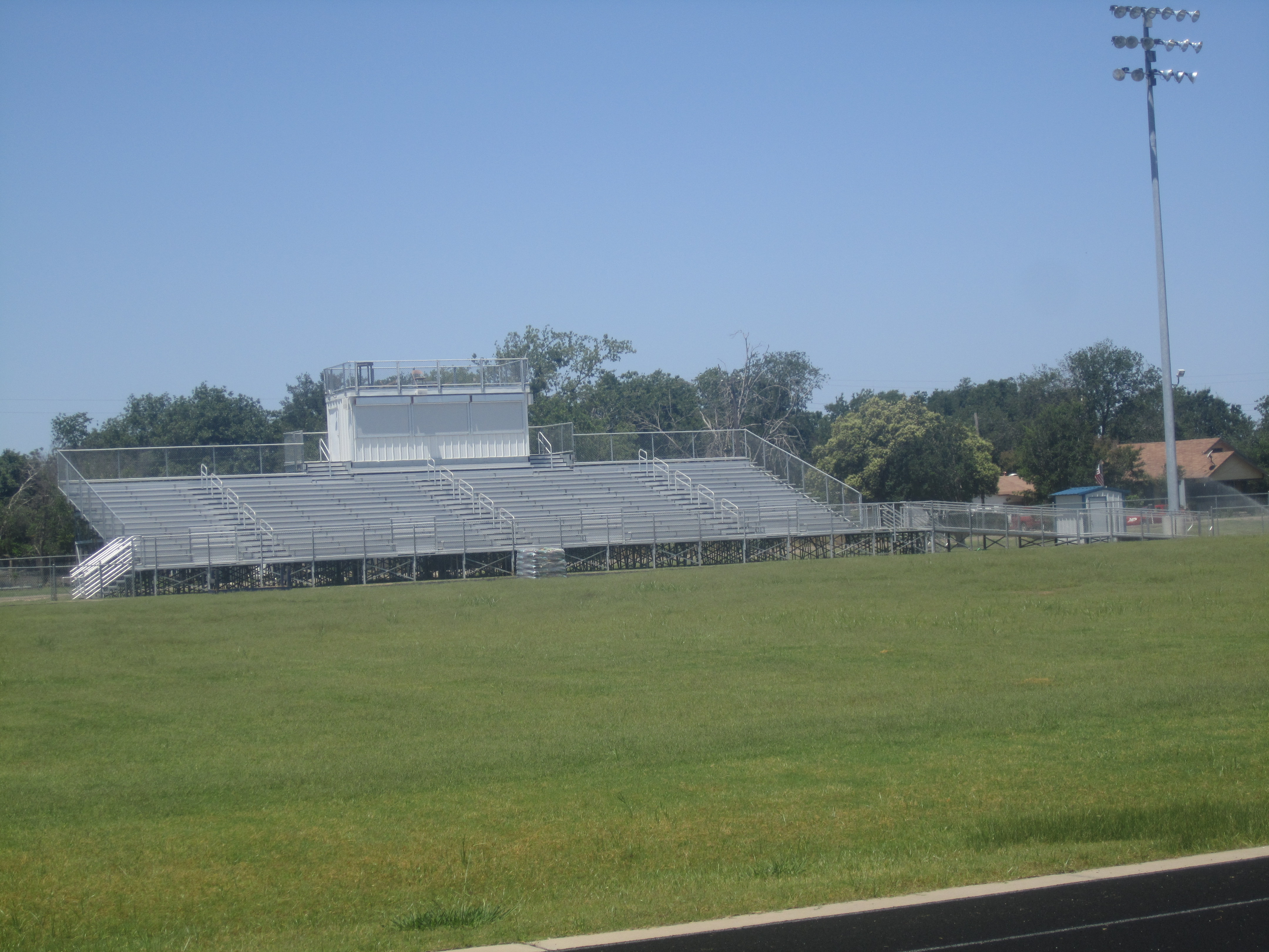 I took photo with Canon camera of Featherston Field in Chilton, TX, June 1, 2012. Billy Hathorn (talk) 17:42, 28 June 2012 (UTC)